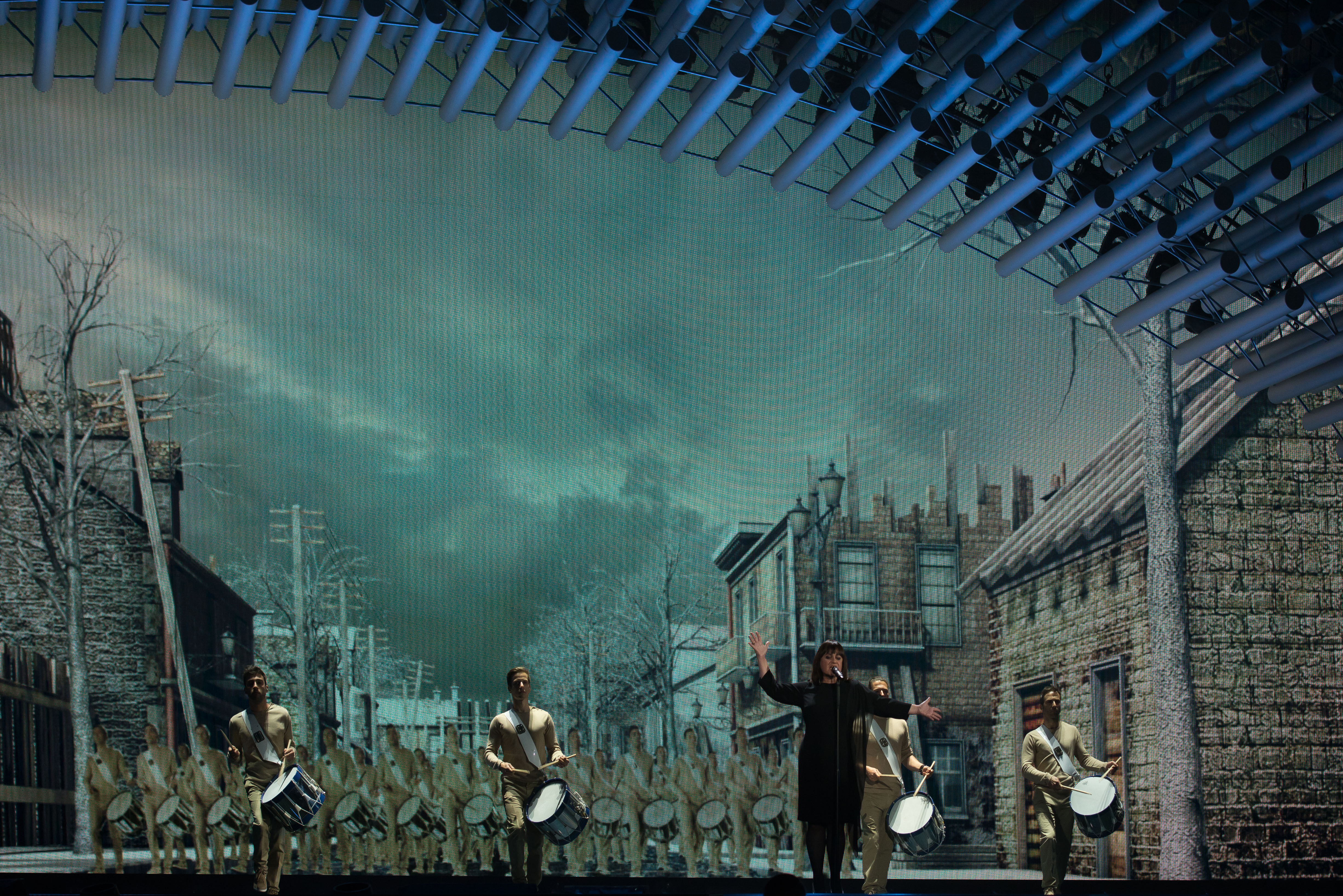 Eurovision Song Contest Vienna 2015: Lisa Angell